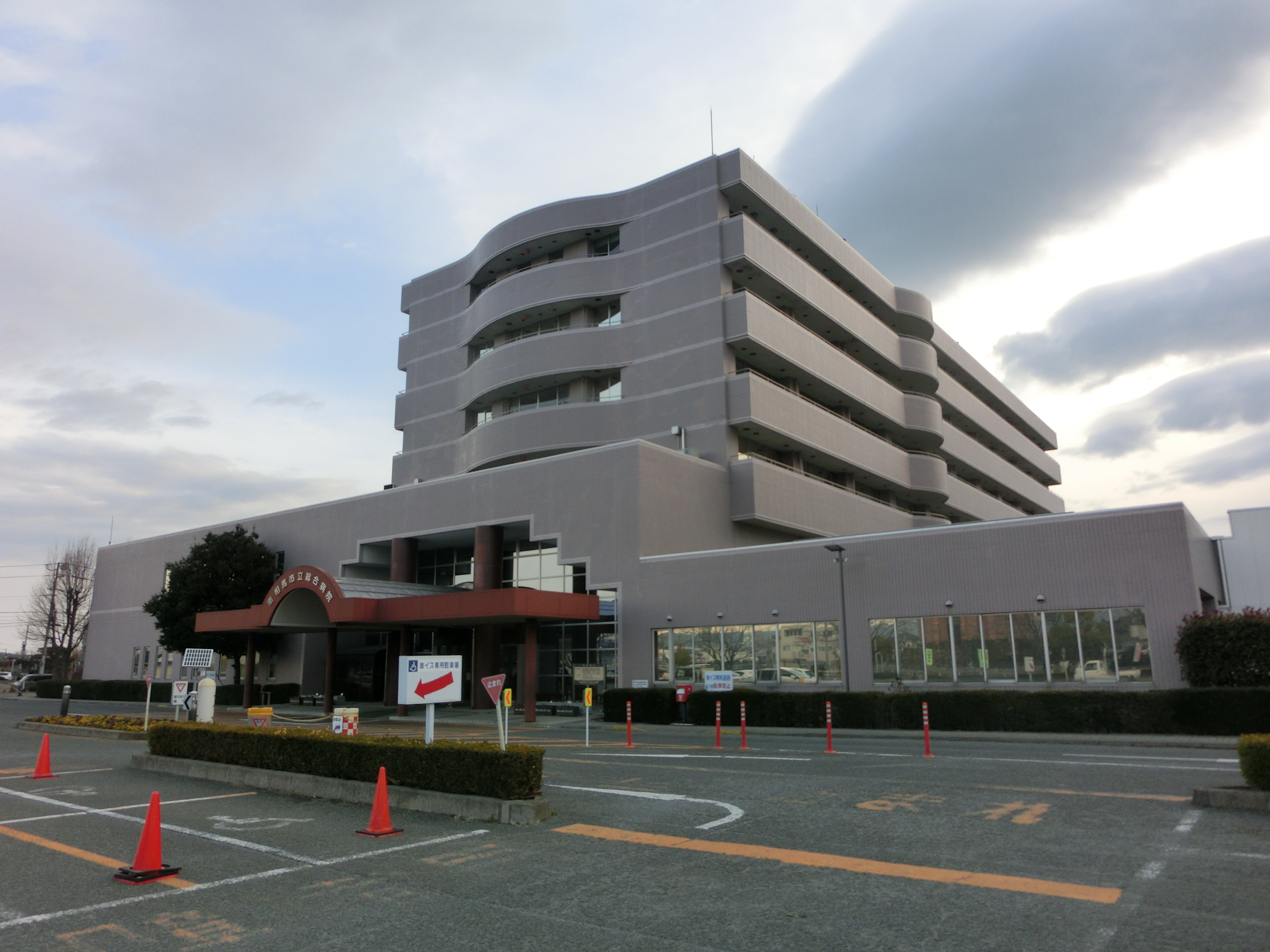 Minamisoma City General Hospital